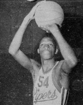 Professional basketball player Dick Barnett